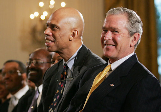 President George W. Bush is joined by basketball Hall of Famer Kareem Abdul Jabbar in the East Room of the White House Monday, June 26, 2006, as they listen to performer Patti Austin at the Black Music Month celebration focusing on the music of the Gulf Coast: Blues, Jazz and Soul.